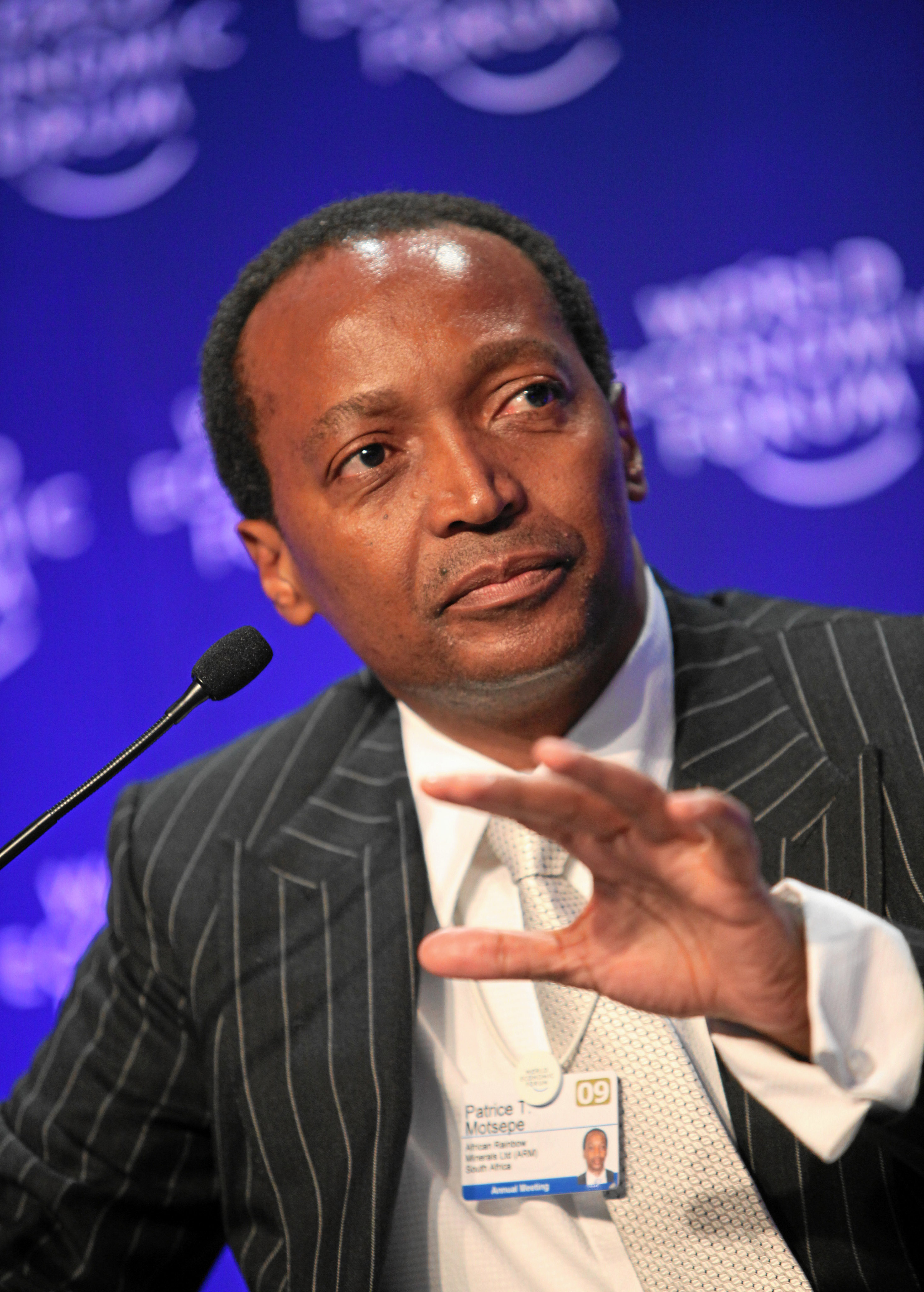 DAVOS-KLOSTERS/SWITZERLAND, 30JAN09 - Patrice T. Motsepe, Executive Chairman, African Rainbow Minerals, South Africa captured during the session 'Global Industry Outlook 1' at the Annual Meeting 2009 of the World Economic Forum in Davos, Switzerland, January 30, 2009.